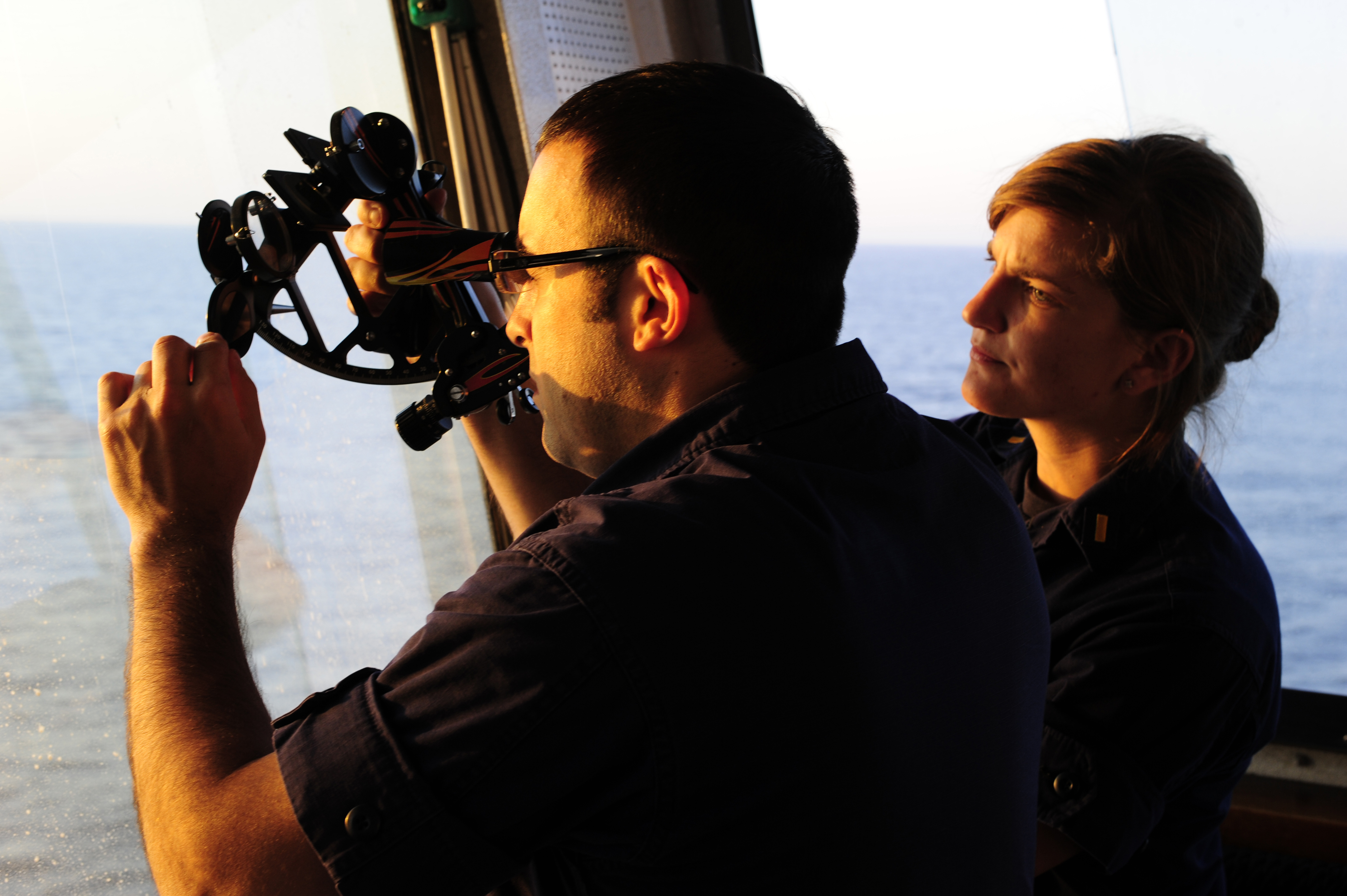 NORTH ATLANTIC - Petty Officer 1st Class Jeremy Pellegrino (left) and Ens. Julia Harwood use a sextant for celestial navigation while underway on the Coast Guard Cutter Juniper April 15, 2012. Using a sextant, crewmembers are able to navigate using the sun and stars while underway. U.S. Coast Guard photo by Petty Officer 2nd Class Rob Simpson.